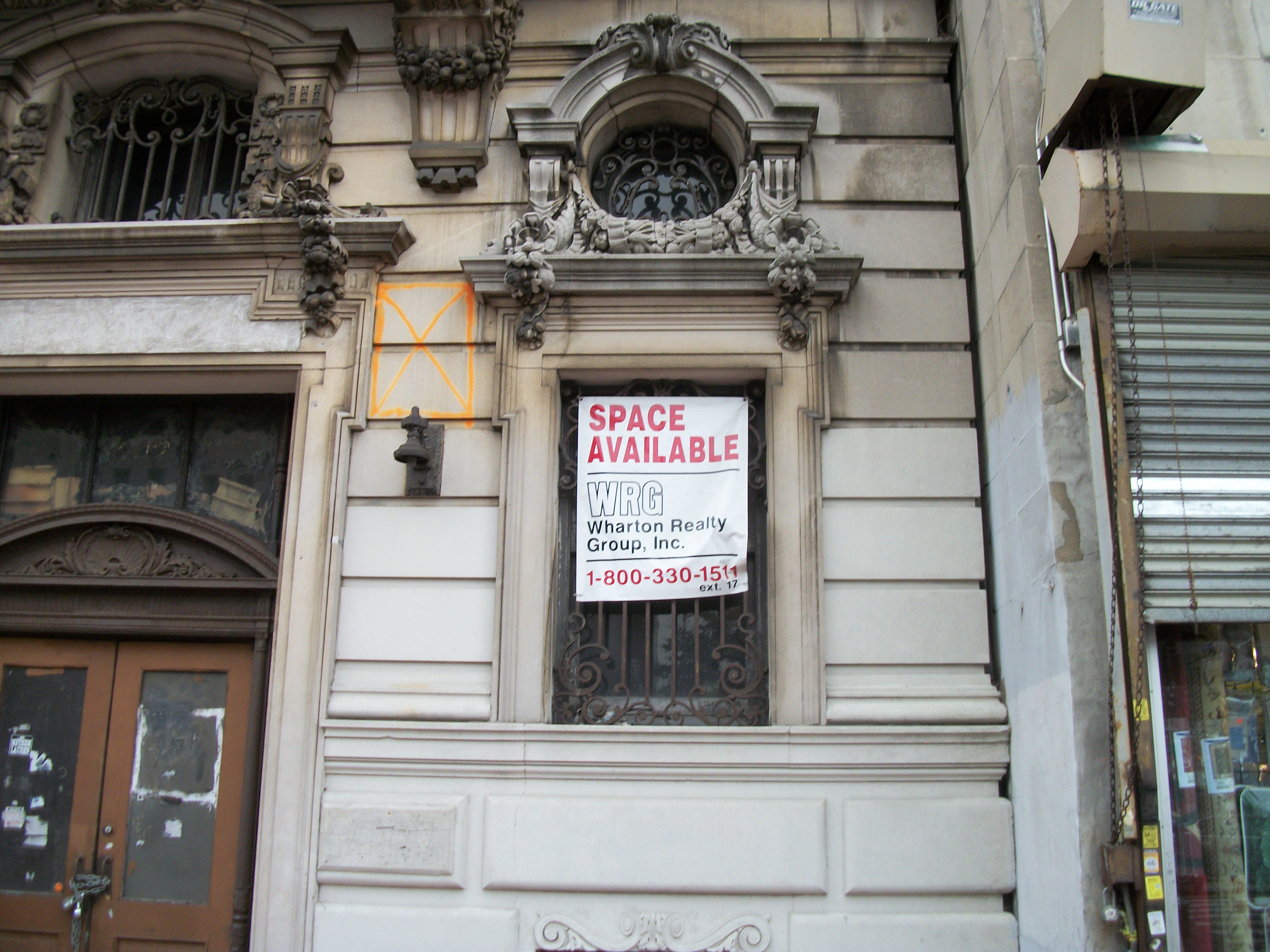 Sign for Wharton Realty Group, the current (as of June 2013) owners of the old Jamaica Savings Bank Building at 161-02 Jamaica Avenue in Jamaica, Queens, New York City. Note also the bright orange X next to the sign which was added by a New York City Fire Inspector who reluctantly told me that the owners let the building become a fire trap.